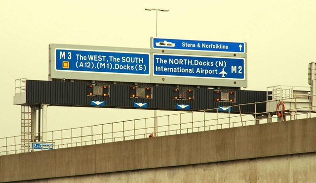 Motorway sign, Belfast (2). See 495862. The same sign (amended to take account of the new terminals for the Stranraer and Isle of Man ferries) with the overhead lights showing a 40mph speed limit and lane closure due to roadworks. Continue to 1760656.